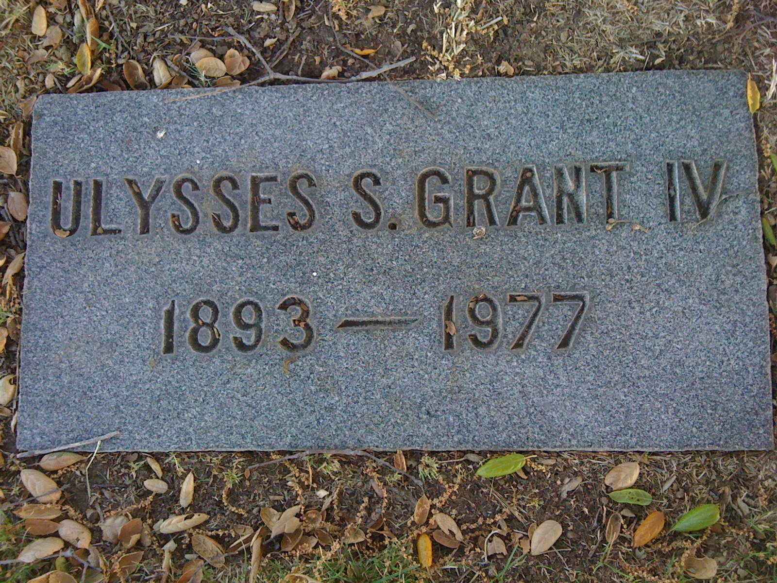 Took pic with my iphone